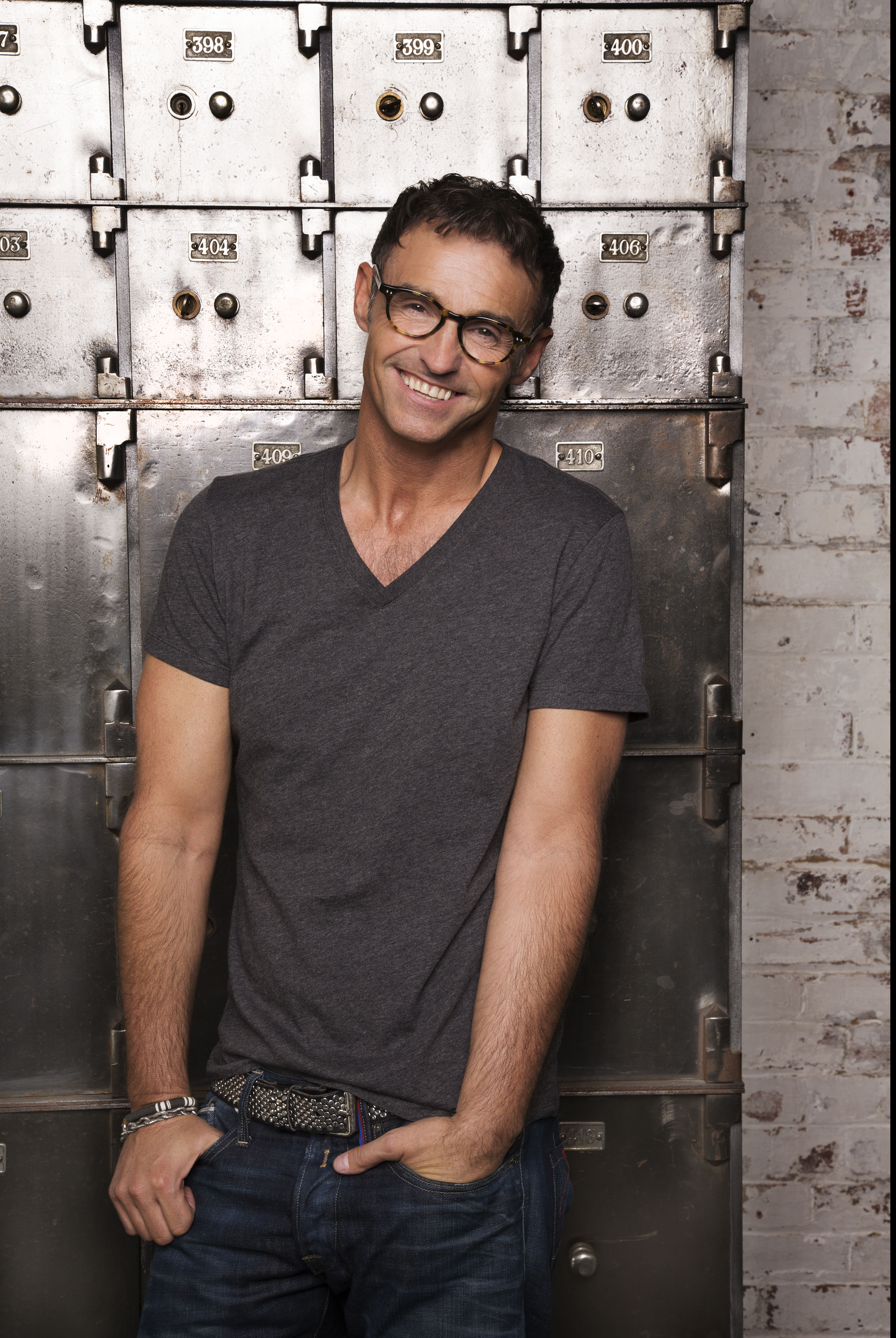 Marti Pellow (photo by Simon Fowler)